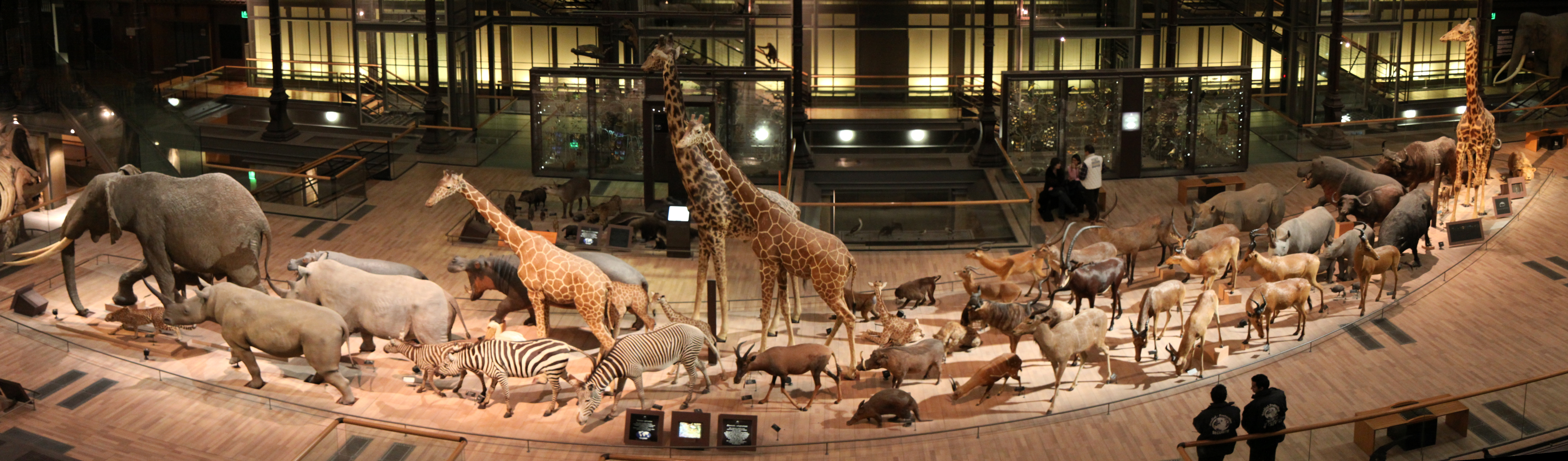 The "African fauna herd" as exhibited in the first level of the Gallery of Evolution, which is a zoology museum building belonging to the French National Museum of Natural History. The Gallery of Evolution's building is located in the Jardin des plantes in Paris.